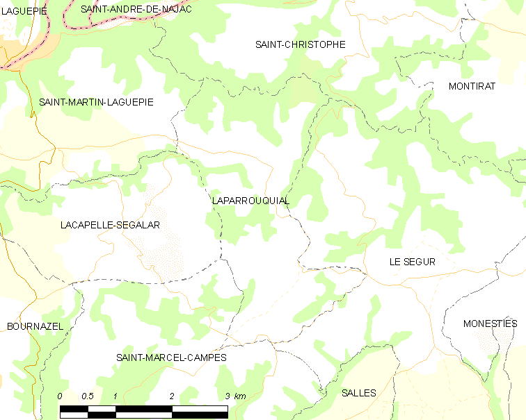 Map of French municipality Laparrouquial